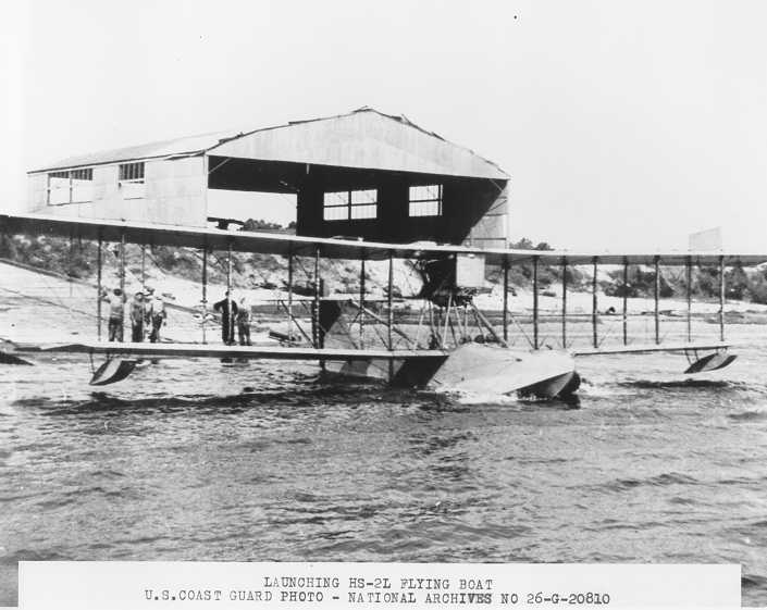 Launching an HS-2L from the seaplane ramp at Coast Guard Air Station Morehead City, North Carolina. U.S. Coast Guard photo from the National Archives.